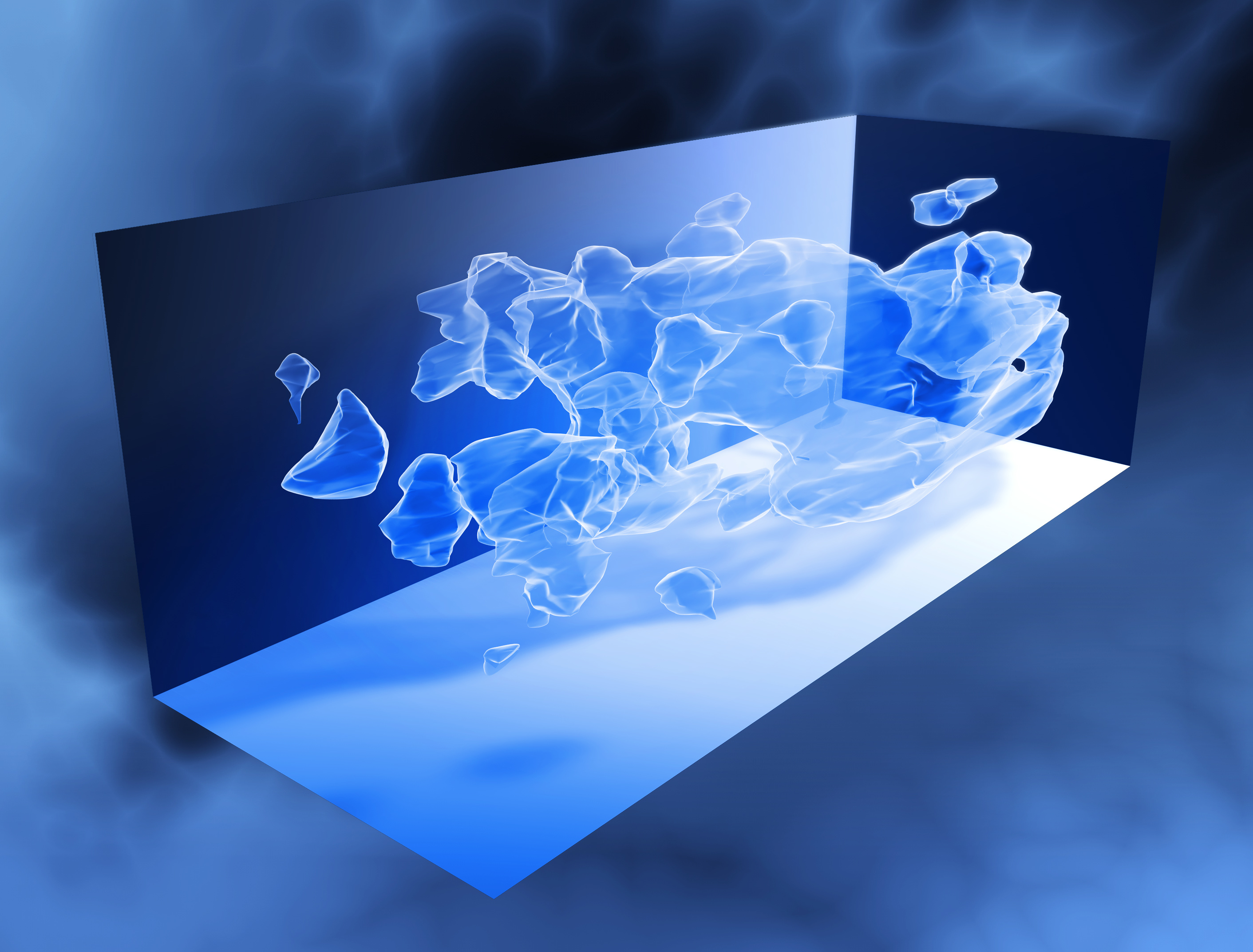 This three-dimensional map offers a first look at the web-like large-scale distribution of dark matter, an invisible form of matter that accounts for most of the Universe's imaginary mass. The map reveals a loose network of dark matter filaments, gradually collapsing under the relentless pull of gravity, and growing clumpier over time. The three axes of the box correspond to sky position (in right ascension and declination), and distance from the Earth increasing from left to right (as measured by cosmological redshift). Note how the clumping of the dark matter becomes more pronounced, moving right to left across the volume map, from the early Universe to the more recent Universe. The distribution of mass in the Hubble Space Telescope COSMOS survey, determined from measurements of weak gravitational lensing. The field of view covers about nine times the size of the full moon, and the third dimension stretches from redshift z=0 to z=1. The figure shows one isosurface of the gravitational potential.